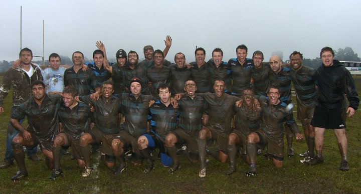 NHRC_time_4.jpg